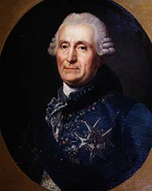 Portrait of Charles Gravier, comte de Vergennes (1717-1787), French diplomat